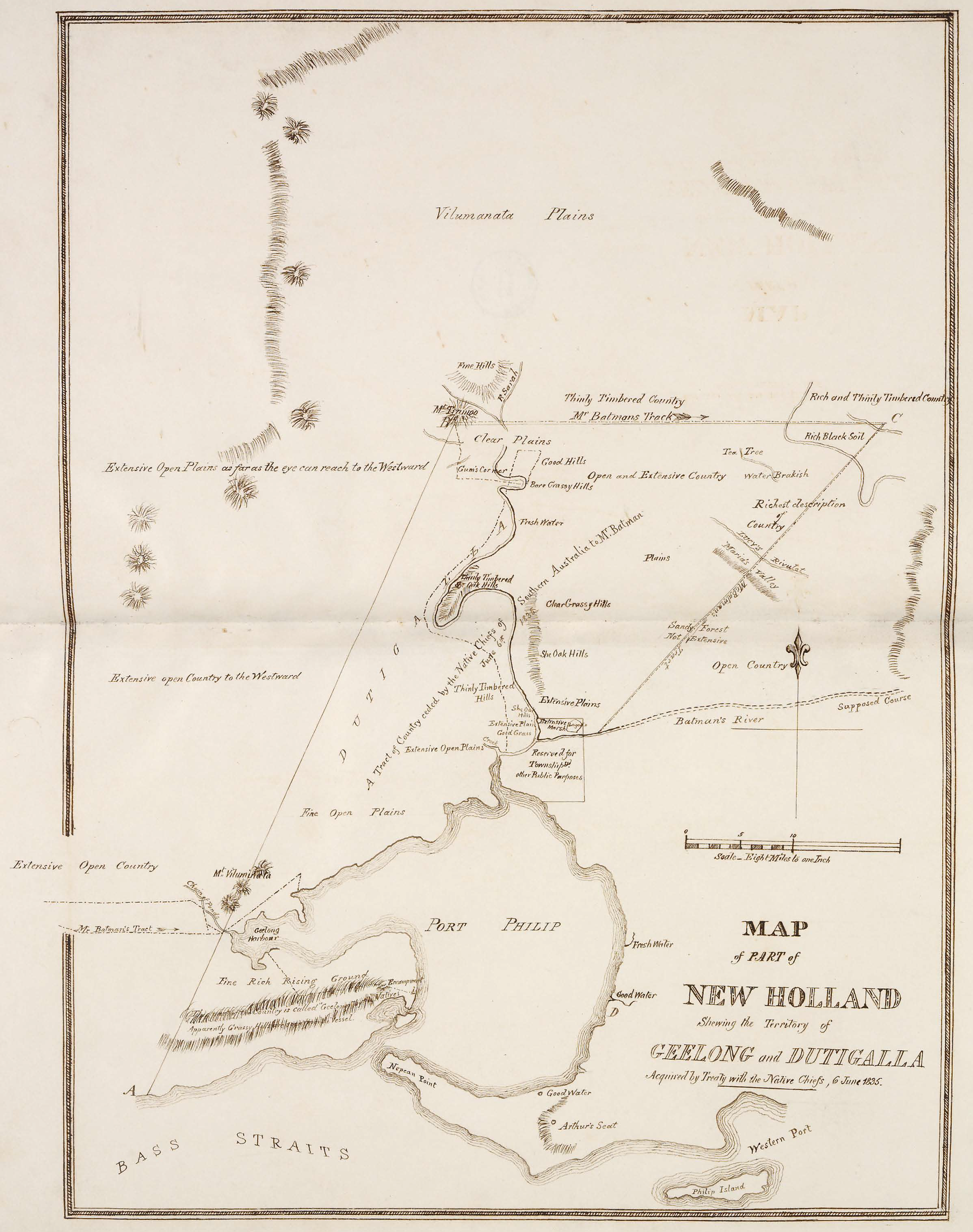 This is a map of the area which is now Melbourne and the Port Philip Bay in Australia, including the northerly Hinterland. The original map caption reads "MAP of PART of NEW HOLLAND Showing the Territory of GEELONG and DUTIGALLA Acquired by Treaty with the Native Chiefs, 6 June 1835." Scale: "Eight Miles to one Inch".